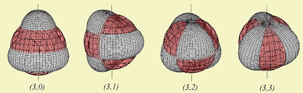 The spherical harmonics (l,m) = (3,0) to (3,3) used as perturbationson a unity sphere.